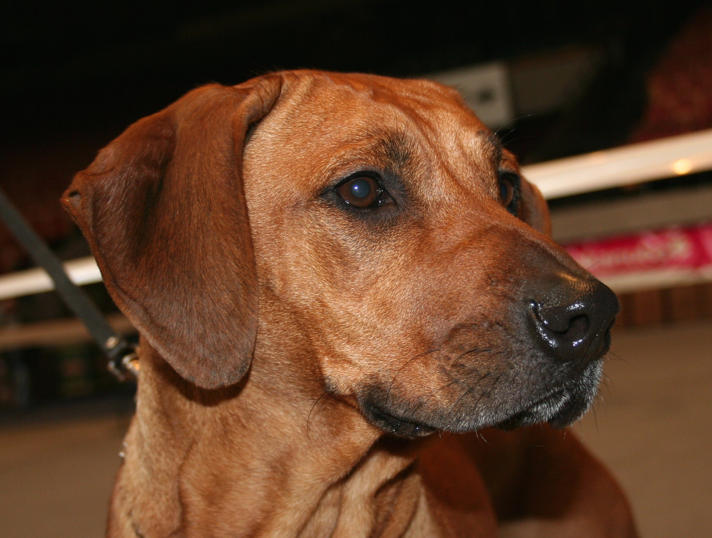 Rhodesian Ridgeback during dogs show in Katowice, Poland